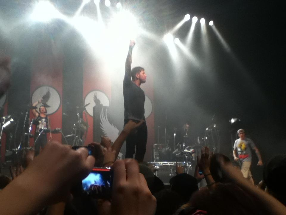 Danny Murillo dans la tournée "World War 3", dans la ville de St. Charles, Missouri